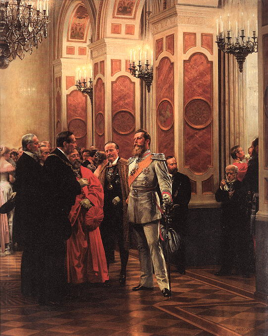 This painting shows Kaiser Friedrich III (1831-1888, reigned March-June 1888) when he was the Crown Prince, in conversation with dignitaries at a court ball. The short (less than 4 1/2 feet tall), white-whiskered man in the doorway at the right is noted artist Adolph Menzel (1815-1905).